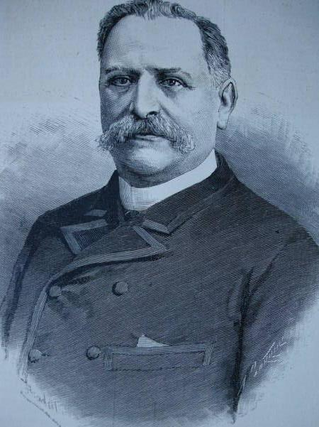 Spanish Politician Manuel Pedregal Cañedo